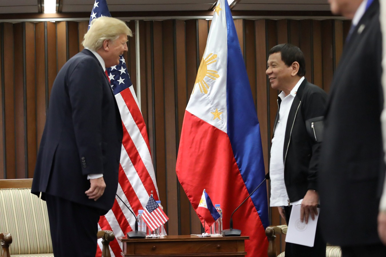 President Rodrigo Roa Duterte and US President Donald Trump share a light moment prior to the bilateral meeting at the Philippine International Convention Center in Pasay City on November 13, 2017. ROBINSON NIÑAL JR./PRESIDENTIAL PHOTO